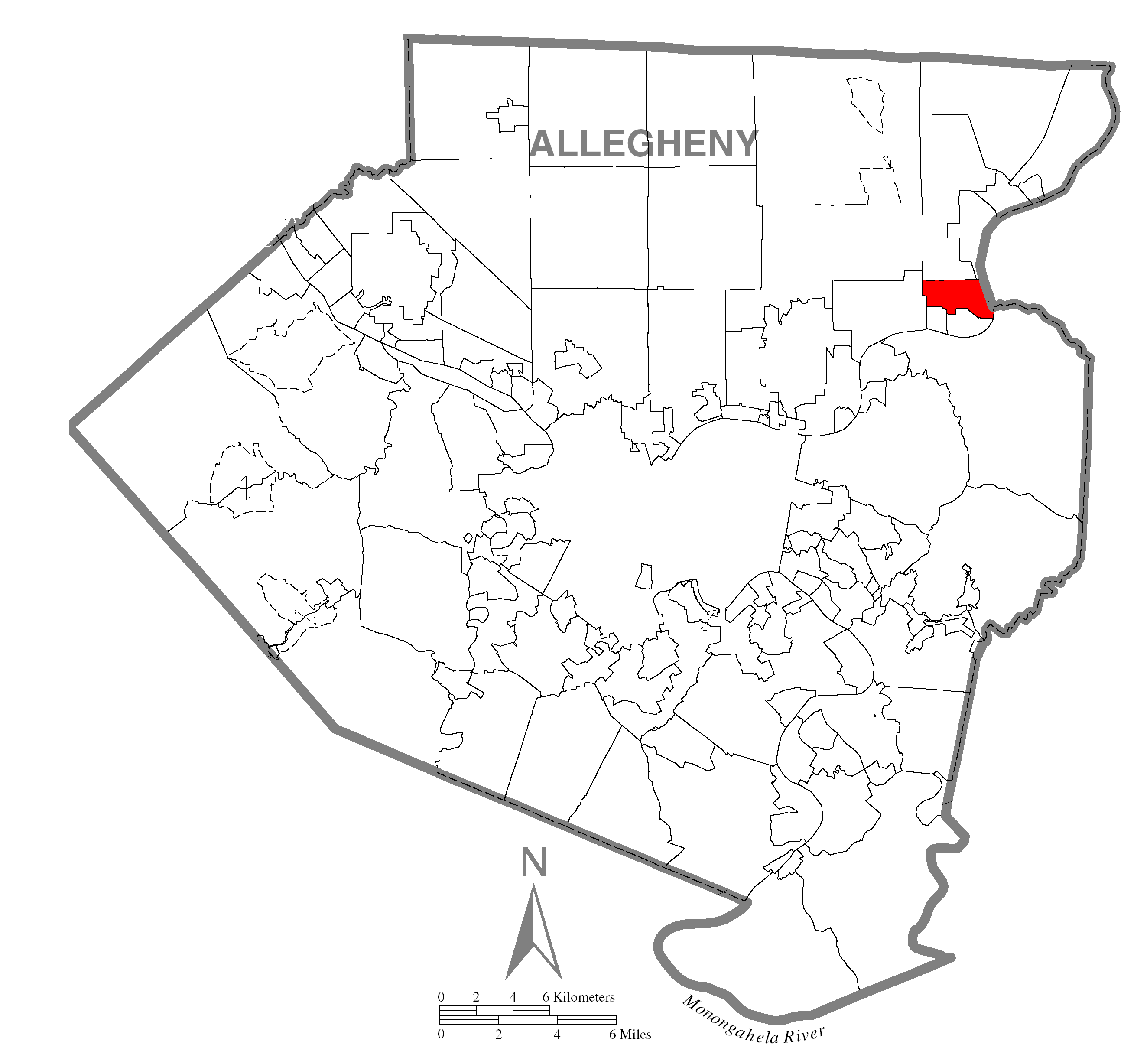 A map of Allegheny County showing Springdale Township, Pennsylvania (alternate) highlighted on the map.